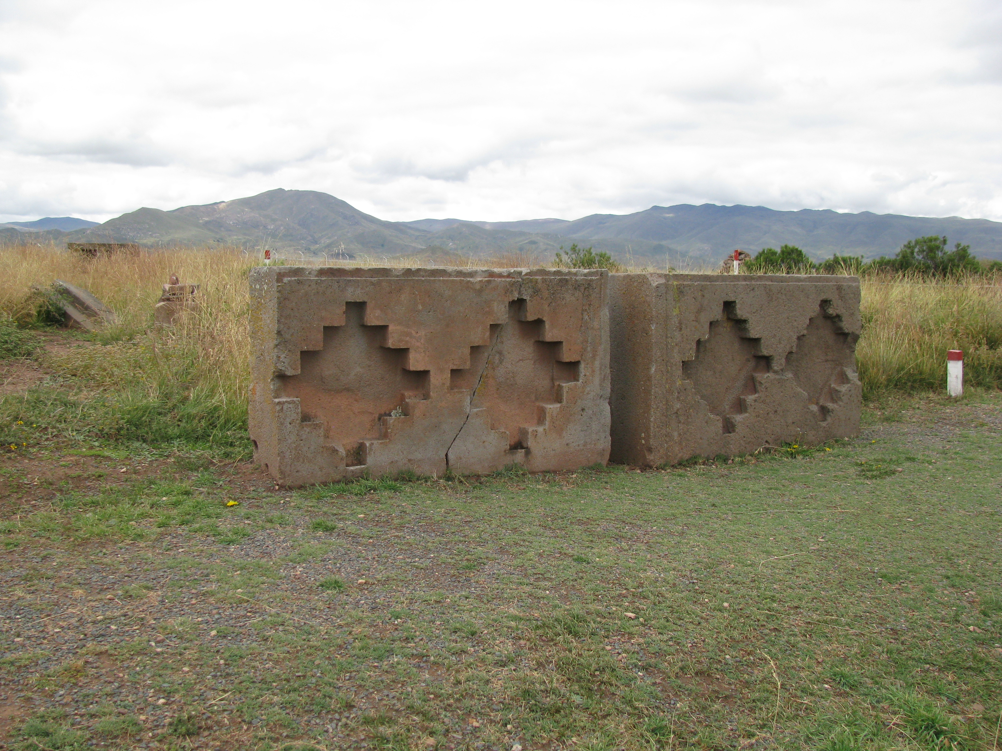 Tiwanaku